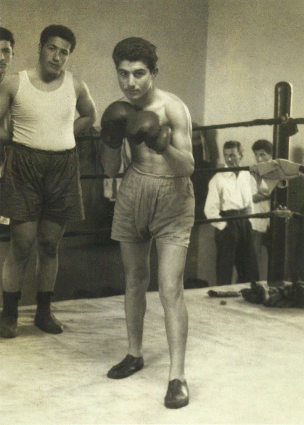 Mozaffar Mosaferi in 1955